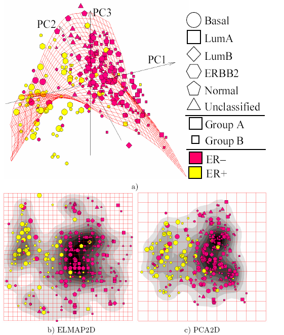 Визуализация набора данных по экспрессии генов в раке молочной железы с использованием упругих карт (b) и метода главных компонент (c). Классы точек показаны с использованием размера (ER - статуc эстроген-рецептора), формы (GROUP - группа А - появление метастаз в течение 5 лет после лечения, группа B - нет рецидива) и цвета (TYPE - молекулярный тип опухоли). На панели (a) показана конфигурация узлов двумерной упругой карты в проекции на первые три главные компоненты. Сравнивая (b) и (c), можно заметить, что базальный тип опухоли как кластер лучше отделен на нелинейной проекции (b). Visualization of breast cancer microarray data[1] using nonlinear pricipal manifolds produced by the elastic maps algorithm[2]. Ab initio classifications are shown using points size (ER), shape (GROUP) and color (TYPE): a) configuration of nodes in the three-dimensional principal linear manifold. One clear feature is that the dataset is curved such that it can not be mapped adequately on a two-dimensional principal plane; b) the distribution of points in the internal non-linear manifold coordinates (ELMap2D) is shown together with an estimation of the two-dimensional density of points; c) the same as b), but for the linear two-dimensional PCA manifold (PCA2D). One can notice that the “basal” breast cancer subtype is visualized more adequately with ELMap2D and some features of the distribution become better resolved in comparison to PCA2D.